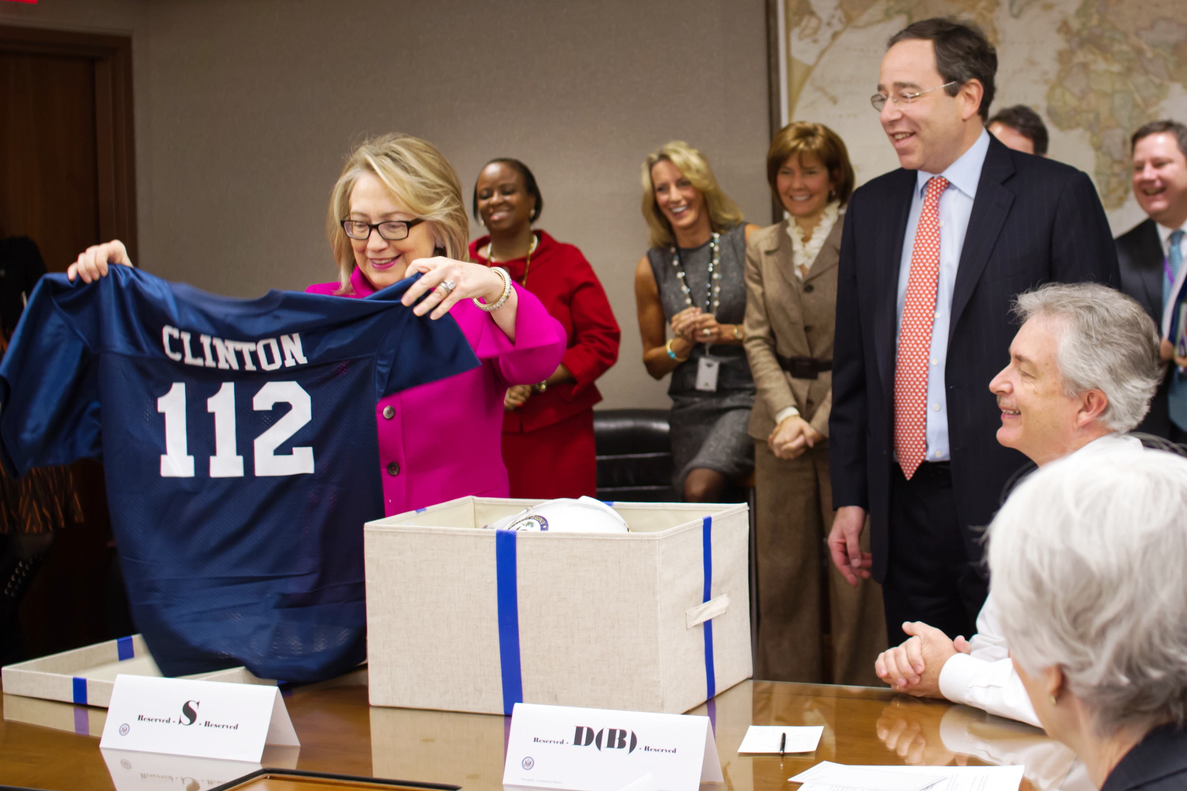 United States Secretary of State Hillary Clinton, returning to work following illness and a head injury, is presented with a football jersey by Deputy Secretary Thomas Nides in Washington, D.C. on 7 January 2013. The jersey number 112 represents the number of countries she has visited as Secretary of State. It was announced on 10 December 2012 that Mrs. Clinton had contracted a viral intestinal ailment during a trip to Europe. On 13 December, she was diagnosed with concussion incurred during a fall when she fainted owing to severe dehydration. Further investigation revealed she had a blood clot in a vein between the brain and the skull behind the right ear. She was absent from work for four weeks.